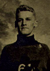 Ice hockey player Emory "Spunk" Sparrow of the 1915–16 Winnipeg 61st Battalion.